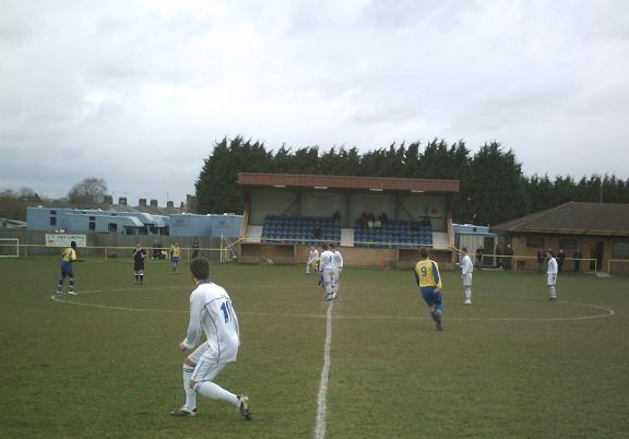 Newmarket Town's Cricket Field Road in 2008; Newmarket Town vs King's Lynn reserves.